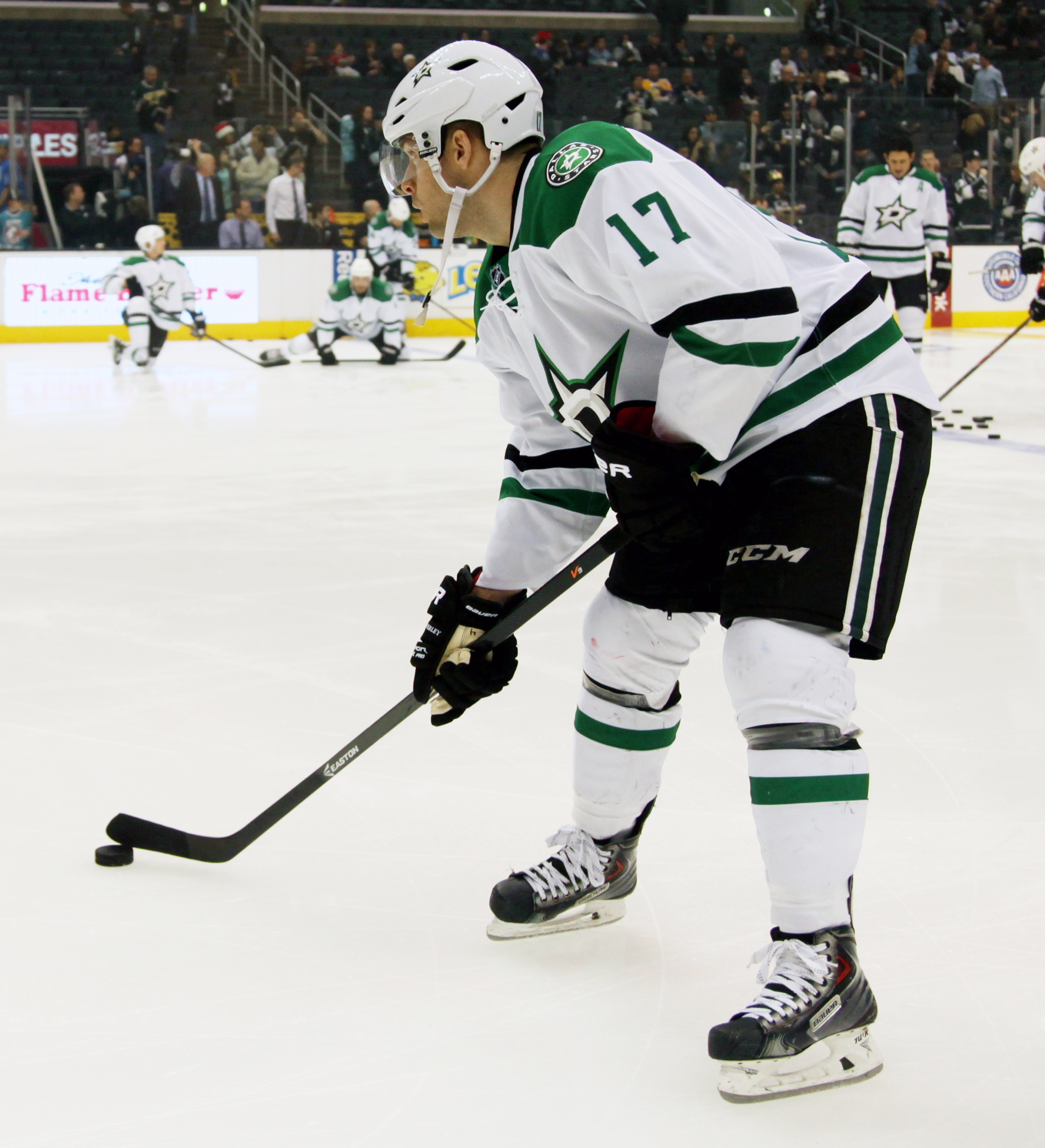 Peverly in December 2013.